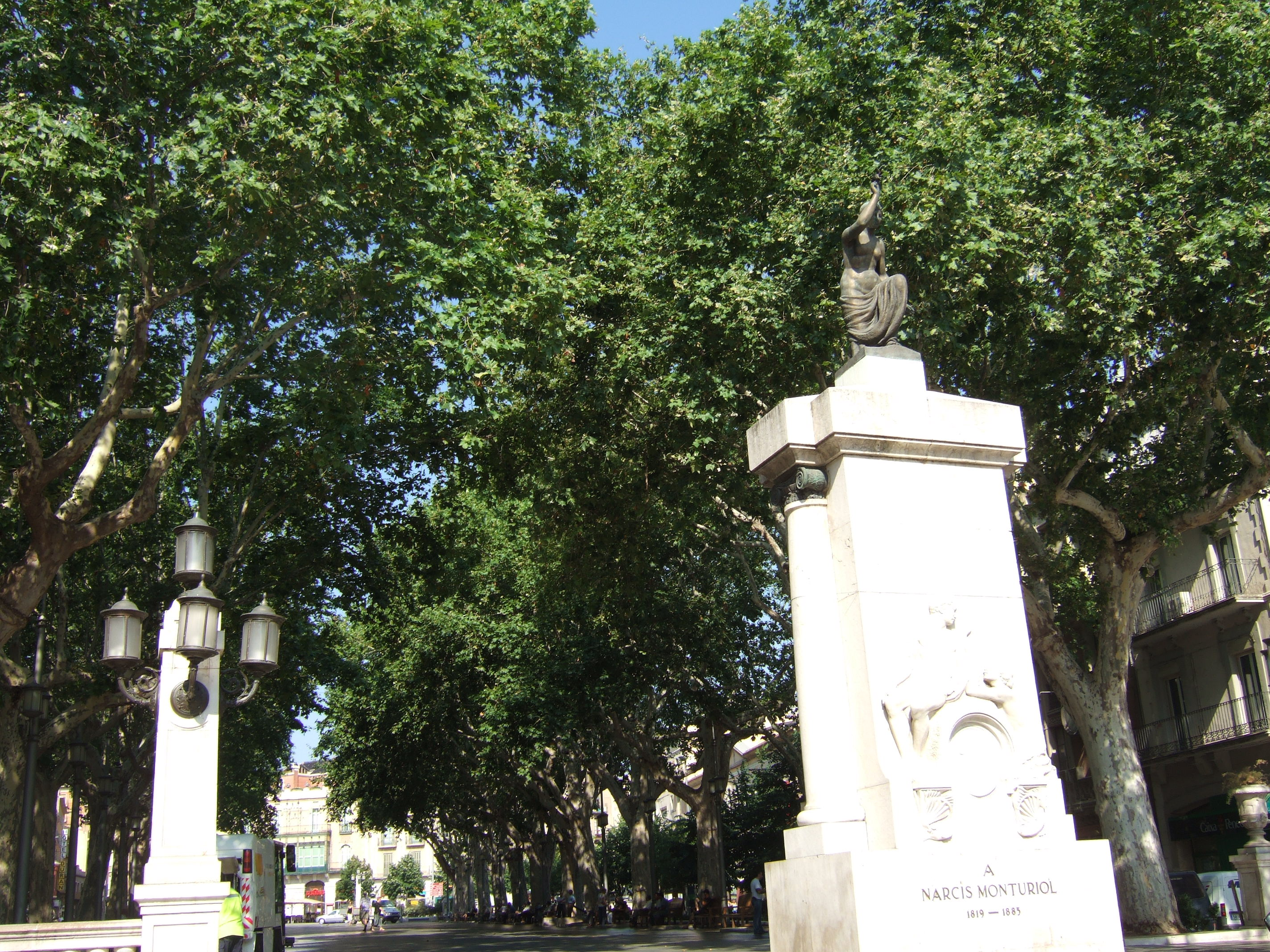 View of the Figueres' Rambla with the Narcis Monturiol's Monument